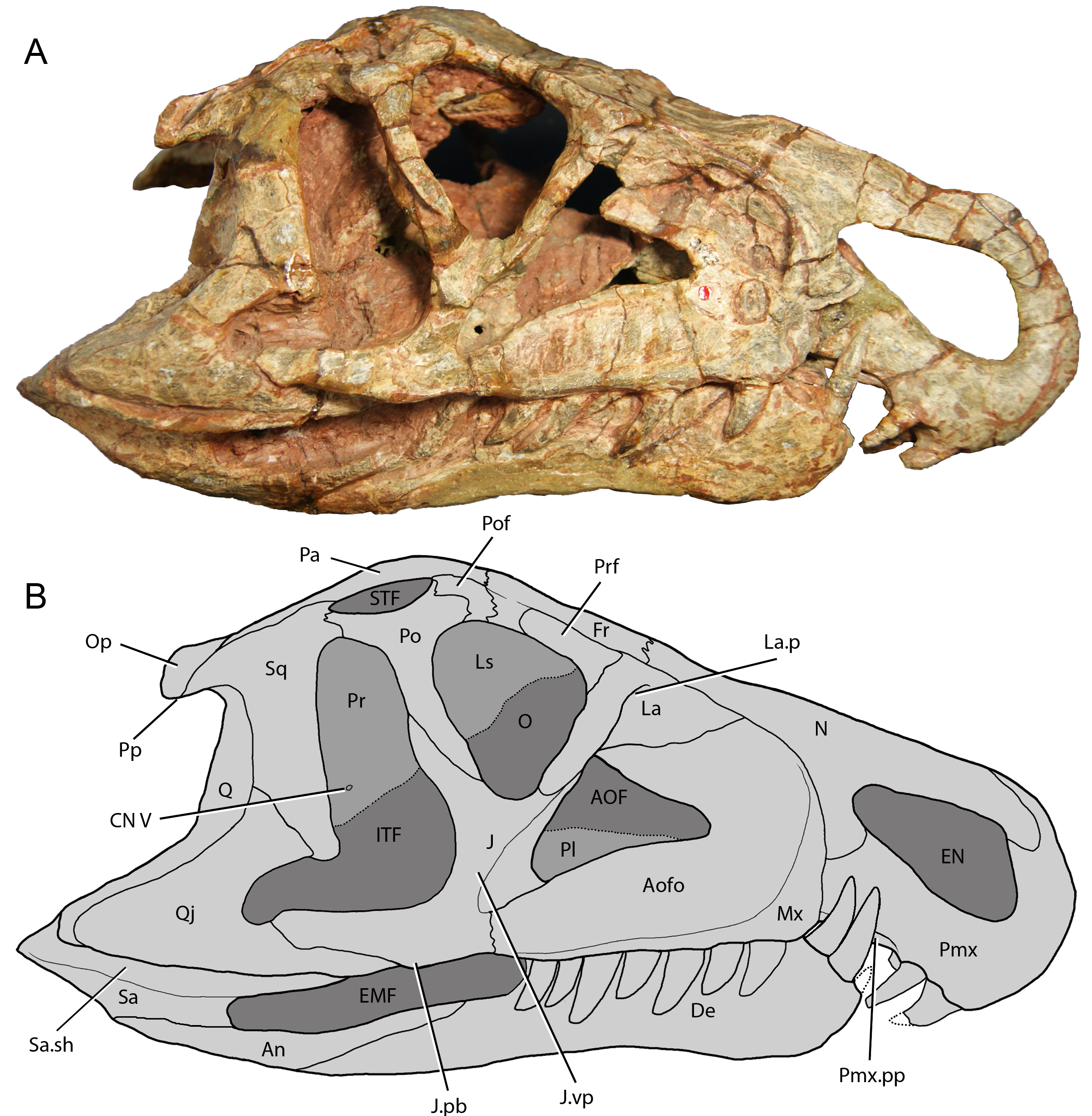 Skull of Riojasuchus tenuisceps in right lateral view. (A) Holotype PVL 3827; (B) reconstruction. Abbreviations: An, angular; AOF, antorbital fenestra; Aofo, antorbital fossa; CN V, exit for cranial nerve V; De, dentary; EMF, external mandibular fenestra; EN, external nares; Fr, frontal; ITF, infratemporal fenestra; J, jugal; J.pb, protuberance of the jugal; J.vp, vertical process of the jugal; La, lacrimal; La.p, pocket on the lacrimal; Ls, laterosphenoid; Mx, maxilla; N, nasal; O, orbit; Op, opisthotic; Pa, parietal; Pfr, prefrontal; Pl, palatine; Pmx, premaxilla; Pmx,pp, palatal process of the premaxilla; Po, postorbital; Pof, postfrontal; Pp, paroccipital process; Pr, prootic; Q, quadrate; Qj, quadratojugal; Sa, surangular; Sa.sh, surangular shelf; Sq, squamosal; STF, supratemporal fenestra. Scale bar: 1cm.